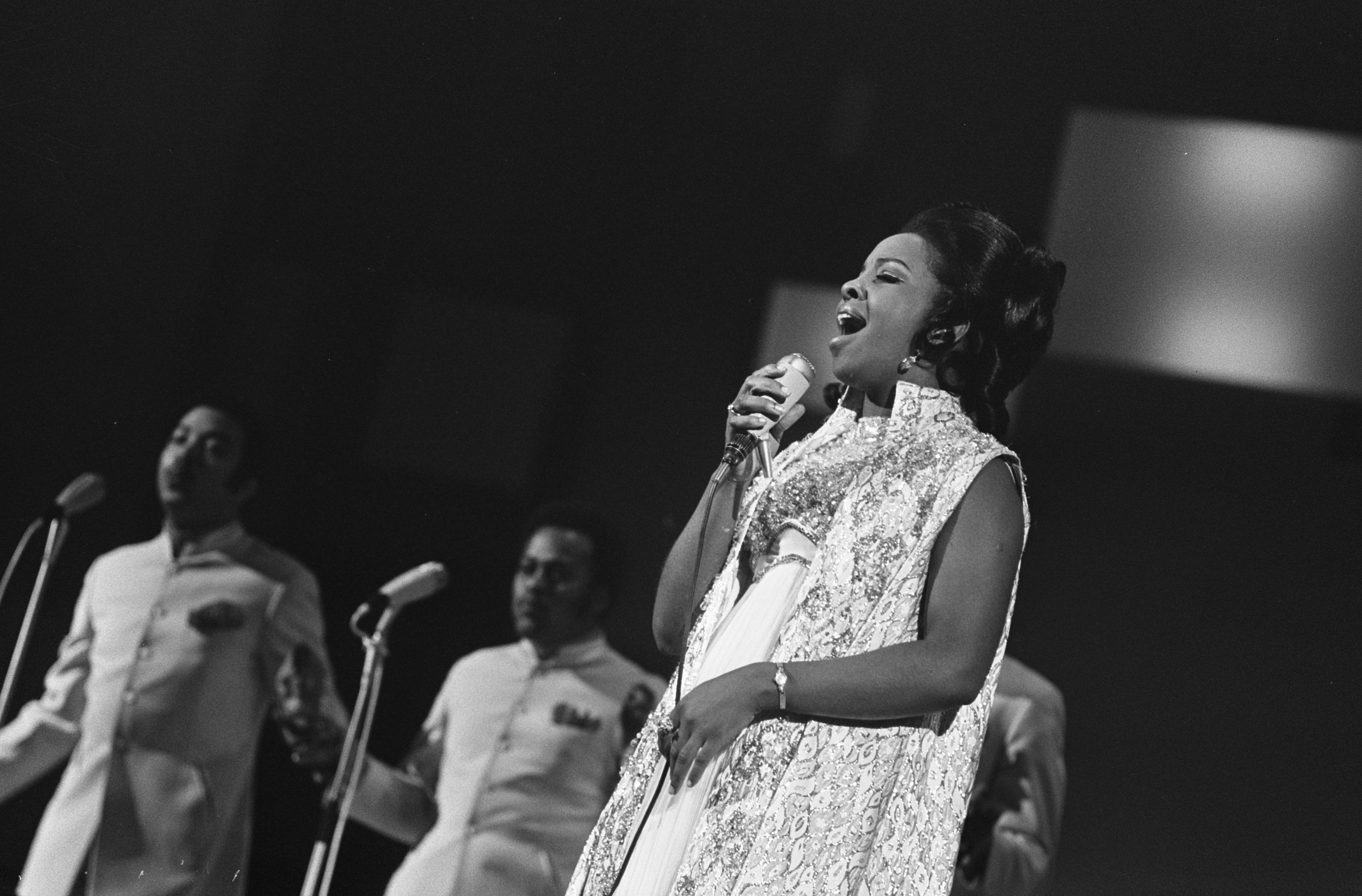 Gladys Knight and the Pips at Grand Gala du Disque Populaire in Congrescentrum (the Netherlands). Date: 7 March 1969